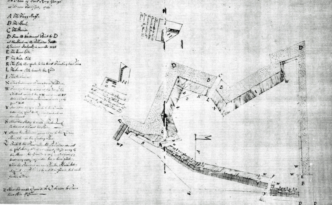 This plan of Fort King George was drawn in 1726. It shows the fort's outerworks and armaments.